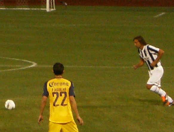 Andrea Pirlo playing a friendly match against Club America